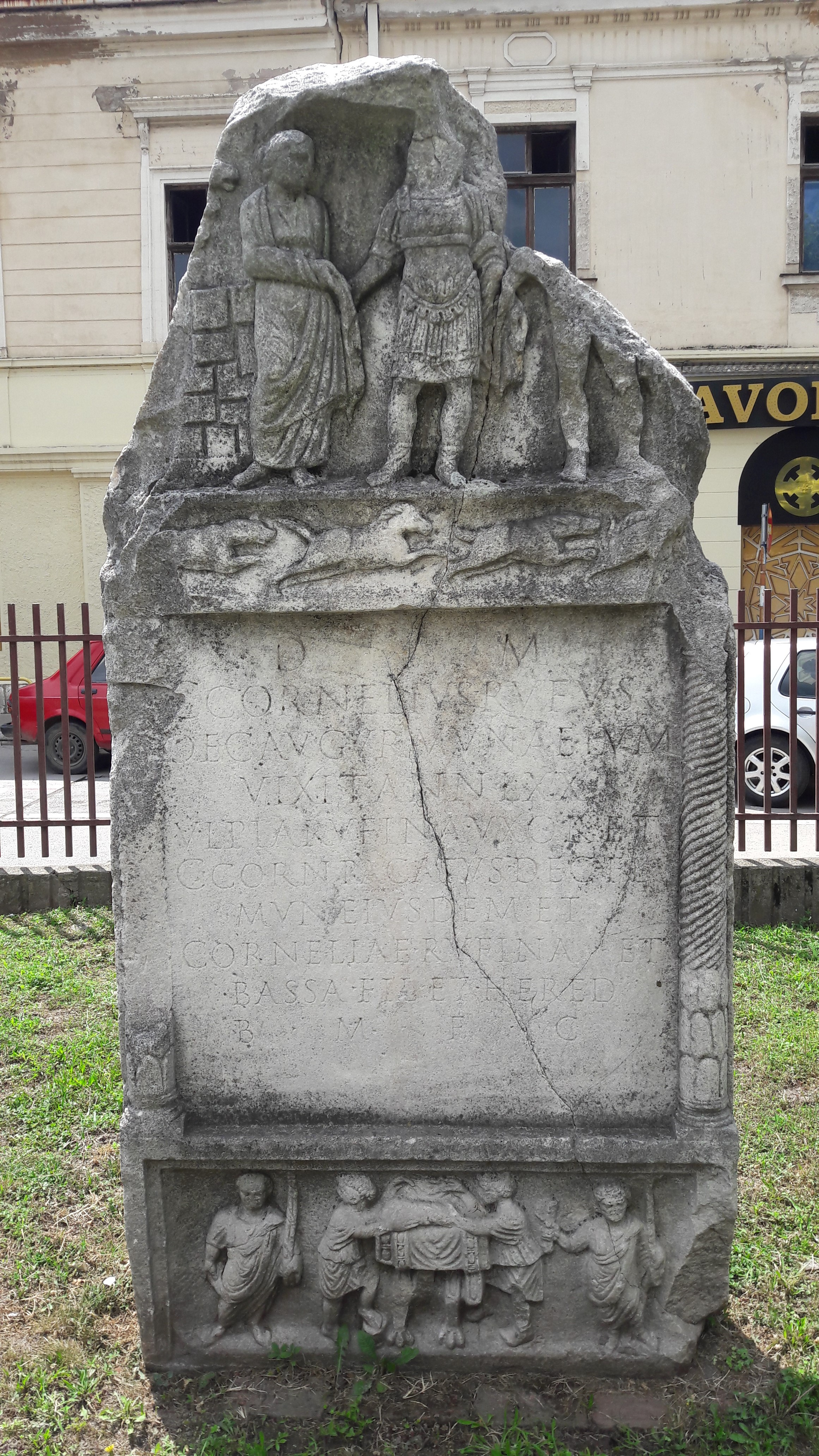 A stele from the front yard of National museum in Požarevac.